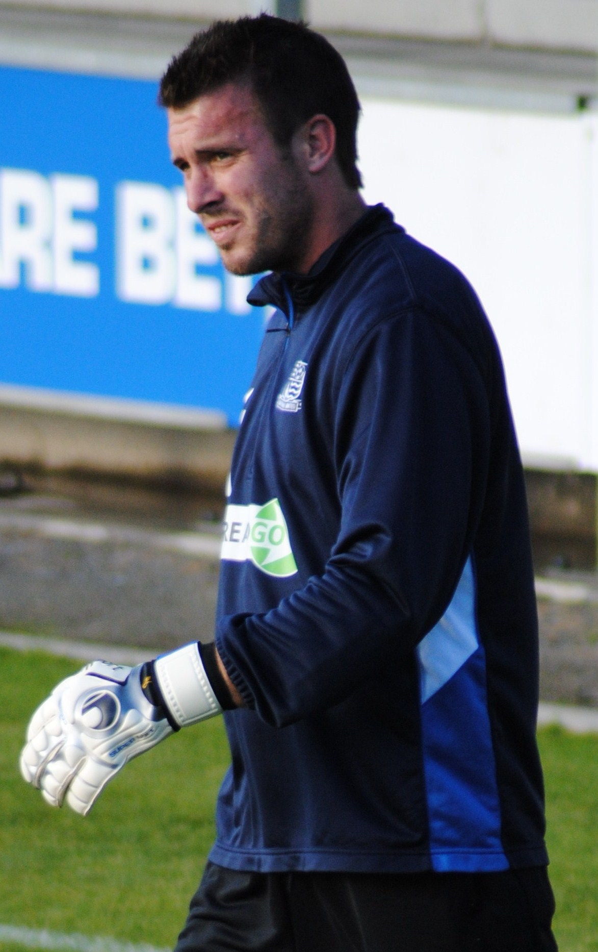 Photograph taken at Southend United's pre-season friendly at Dartford FC.